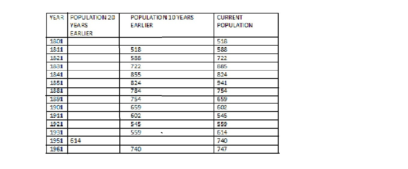 Population trends of Rockcliffe Parish.